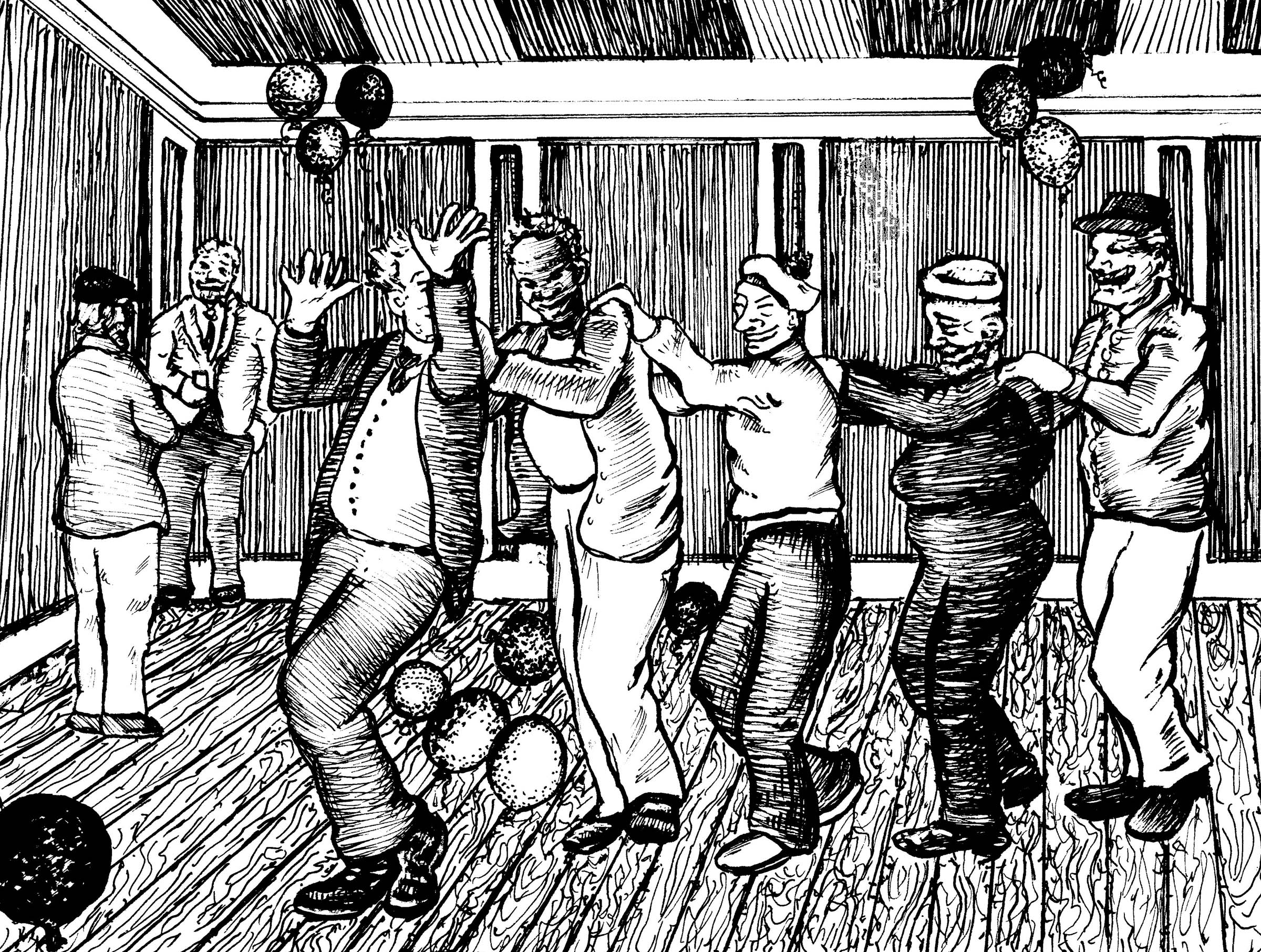 Pen and ink drawing of Snug Harbor Sailors dancing at a party from the book Peter Pigeon of Snug Harbor, by Ed Weiss